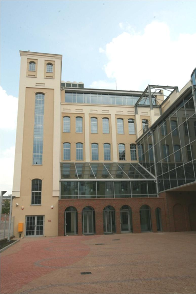 Ericpol Telecom office in Łódź(Dowborczyków St.)